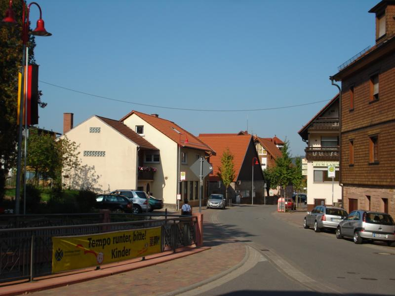 Photo from any street in Zotzenbach